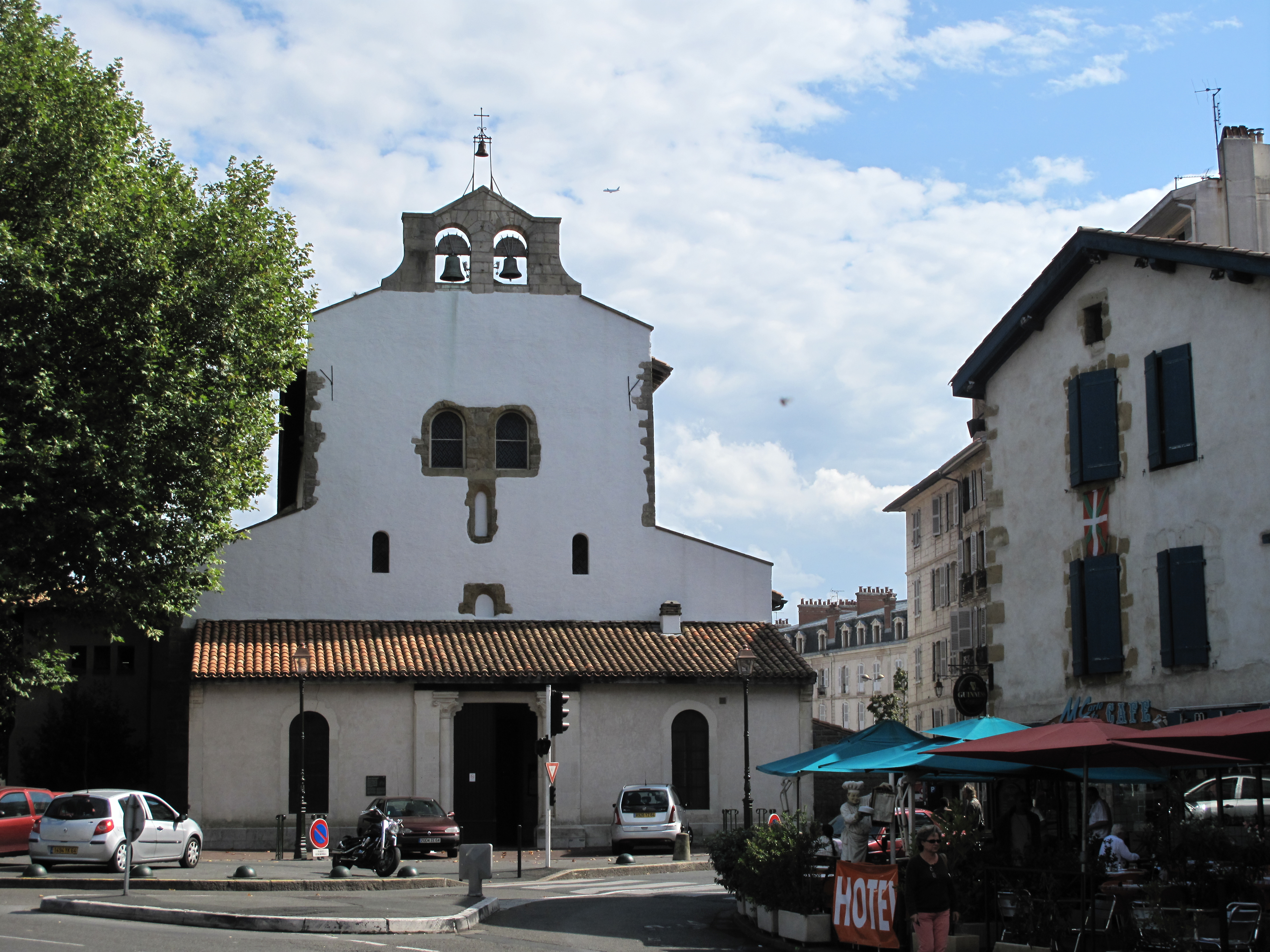 Church of Holy-Spirit in Bayonne, Pyrénées Atlantiques, France